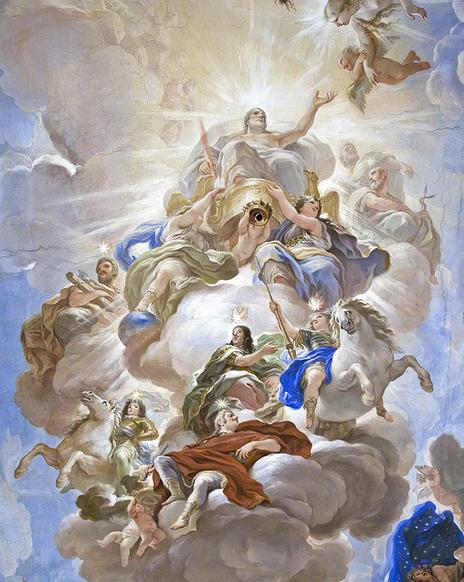 The Apotheosis of the Medici